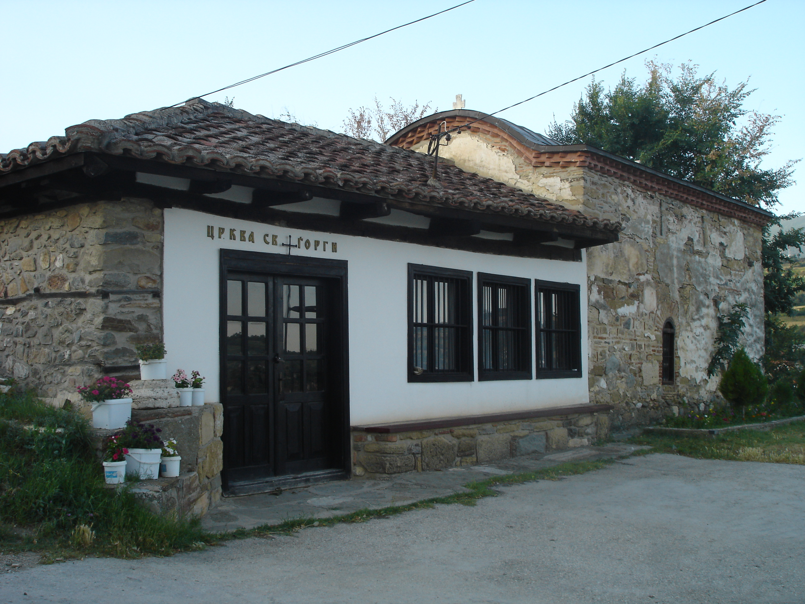 Medieval church St. George in Radishani, Macedonia